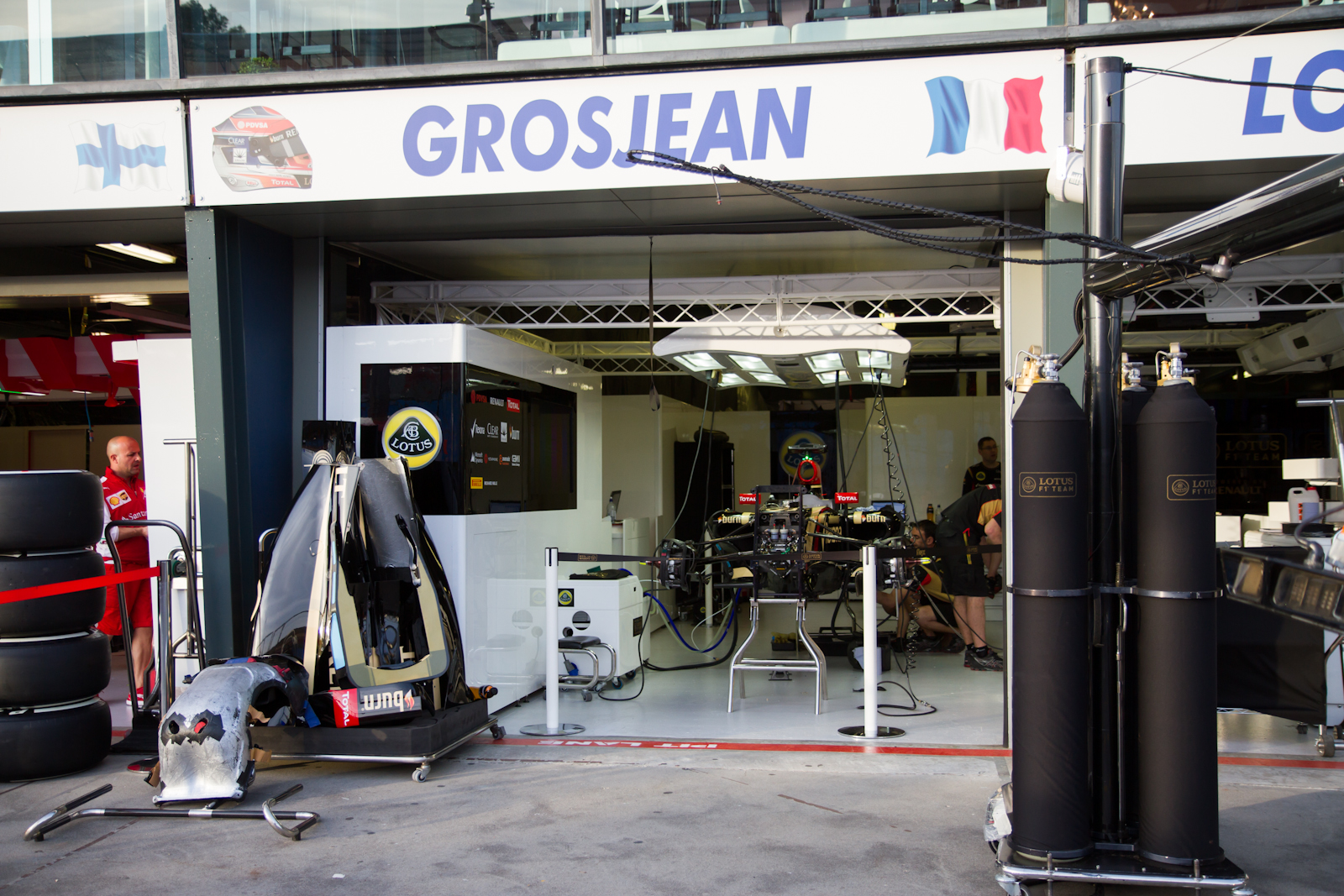 2014 Australian F1 Grand Prix